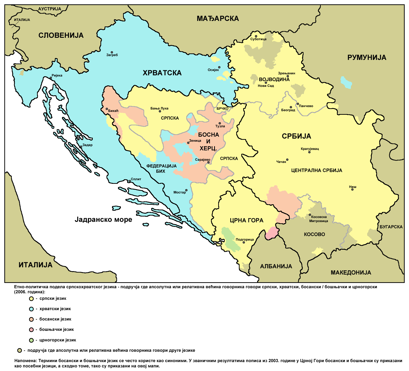 Ethno-political division of the Serbo-Croatian language — areas where Serbian, Croatian, Bosnian/Bosniak, and Montenegrin are spoken by the majority or plurality of speakers (as of 2006) — data by municipalities.